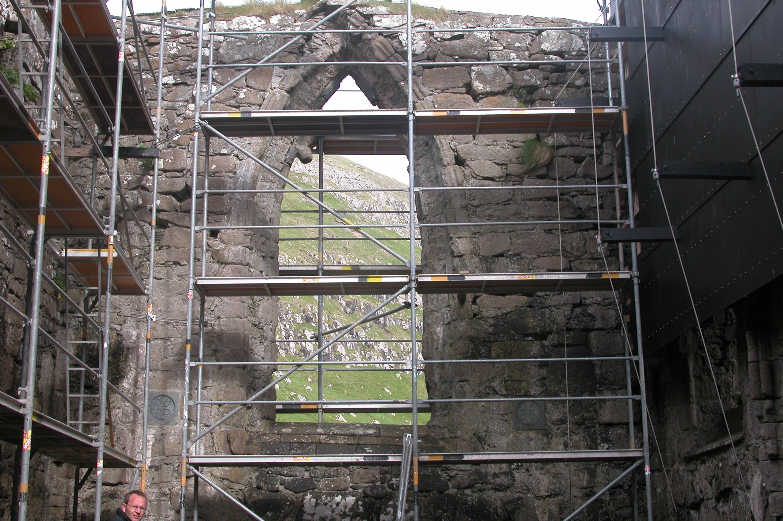 Cathedral ruins of Kirkjubøur on Streymoy, Faroe Islands